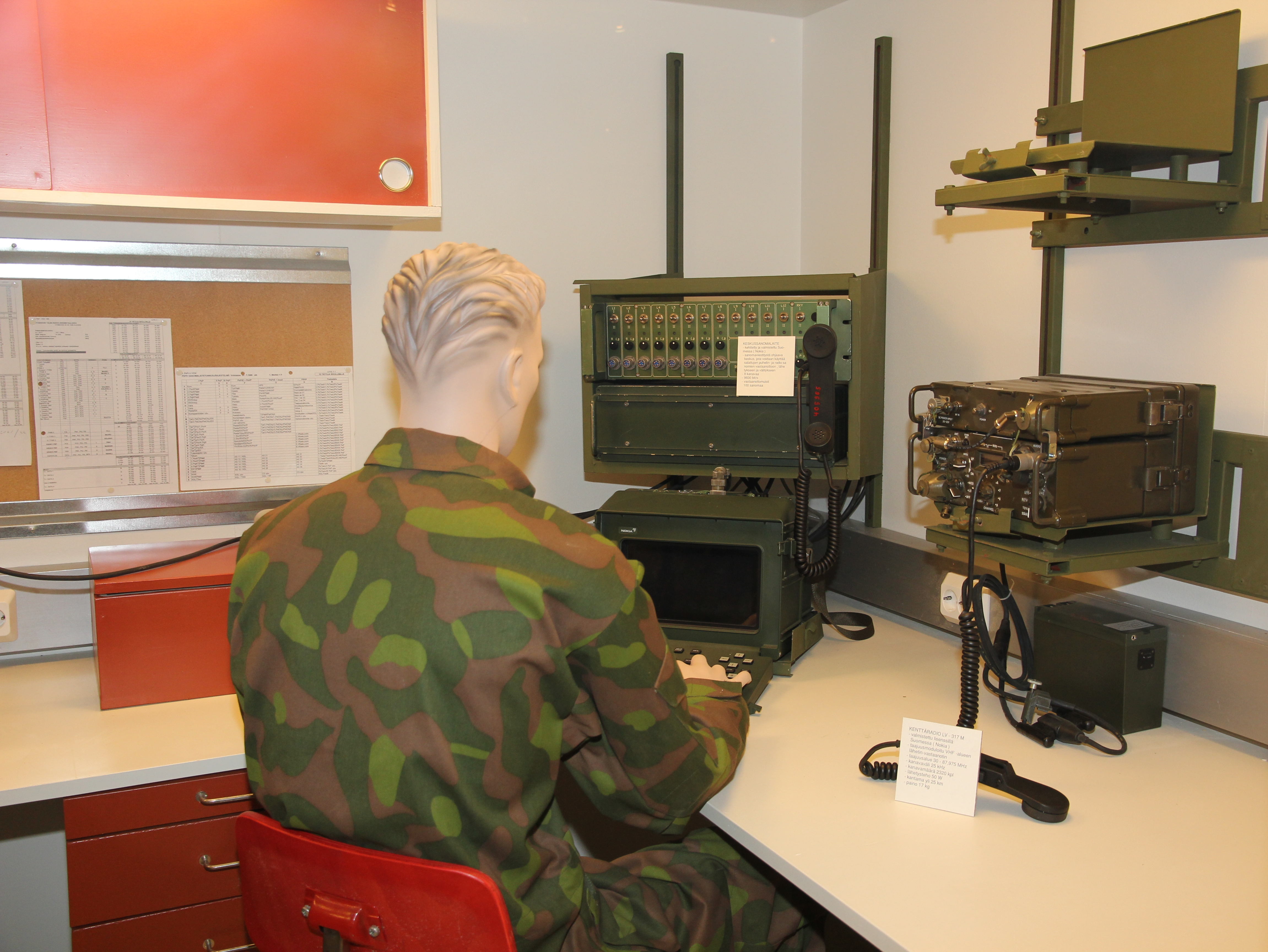 Finnish artillery battalion command post container in Hämeenlinna artillery museum. Signalist with Nokia central messaging system, LV 317M military radio on the right.